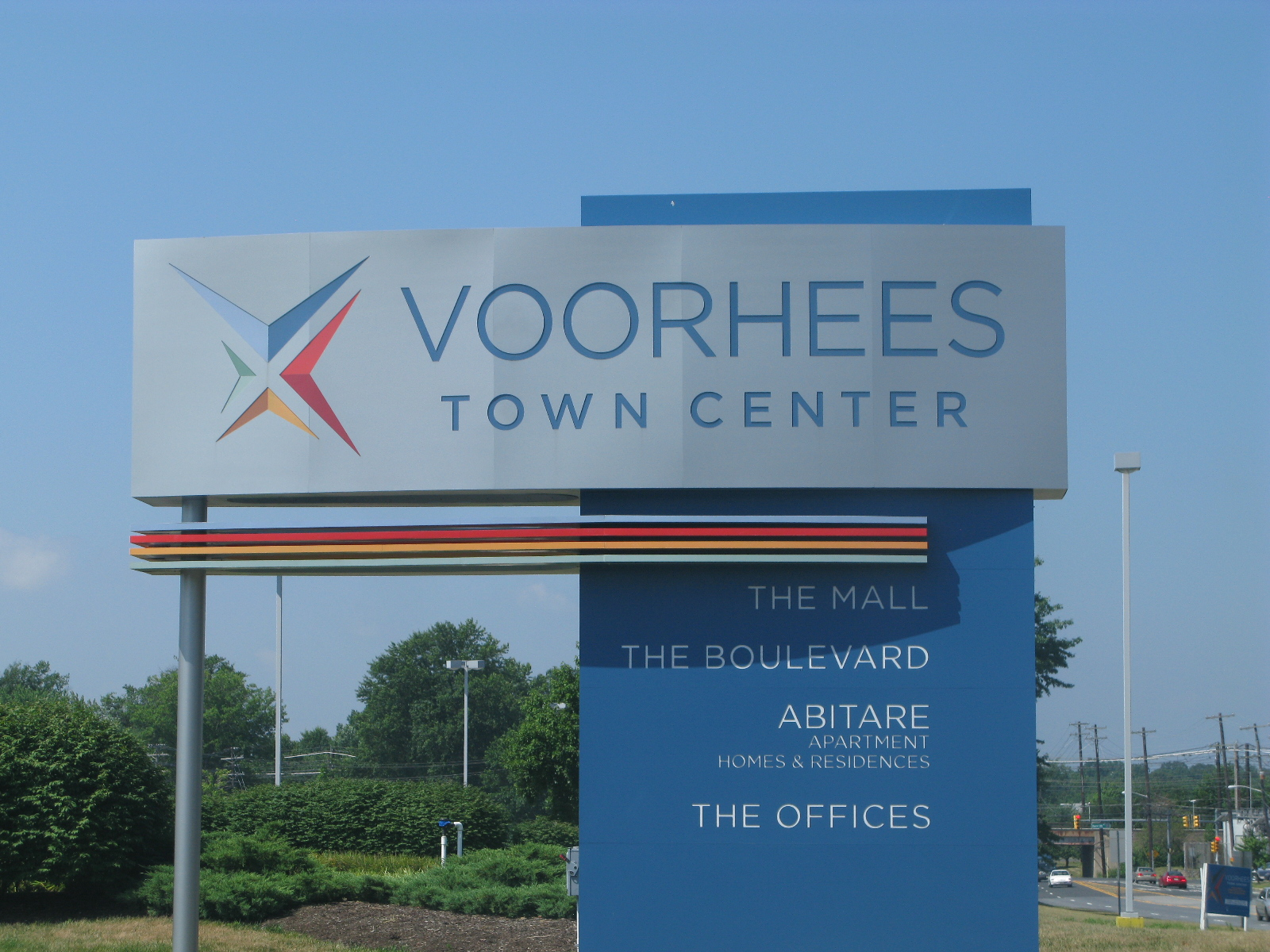 Voorhees Town Center signage along Somerdale Road in Voorhees, NJ